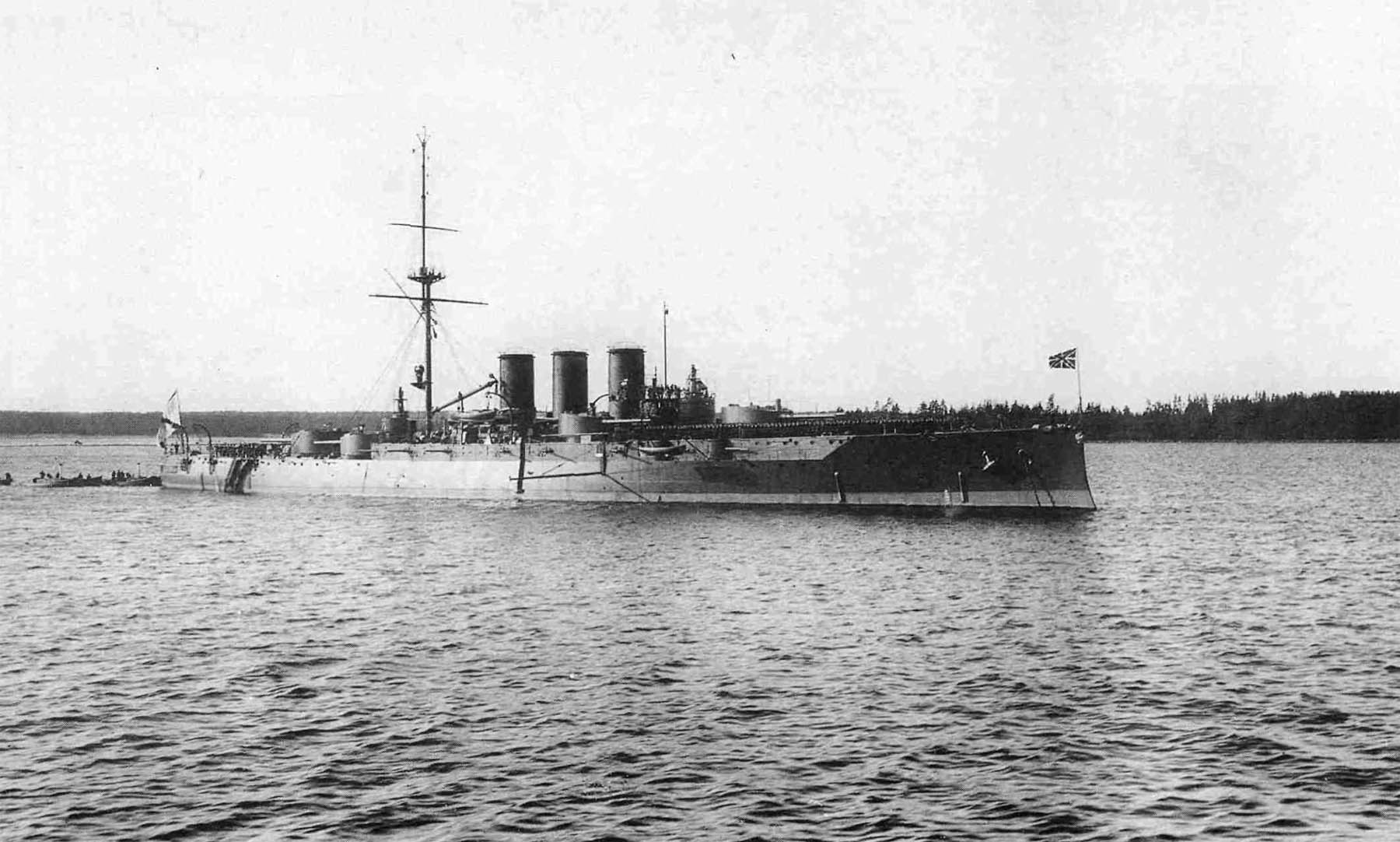 Arimoured cruiser Ryurik.